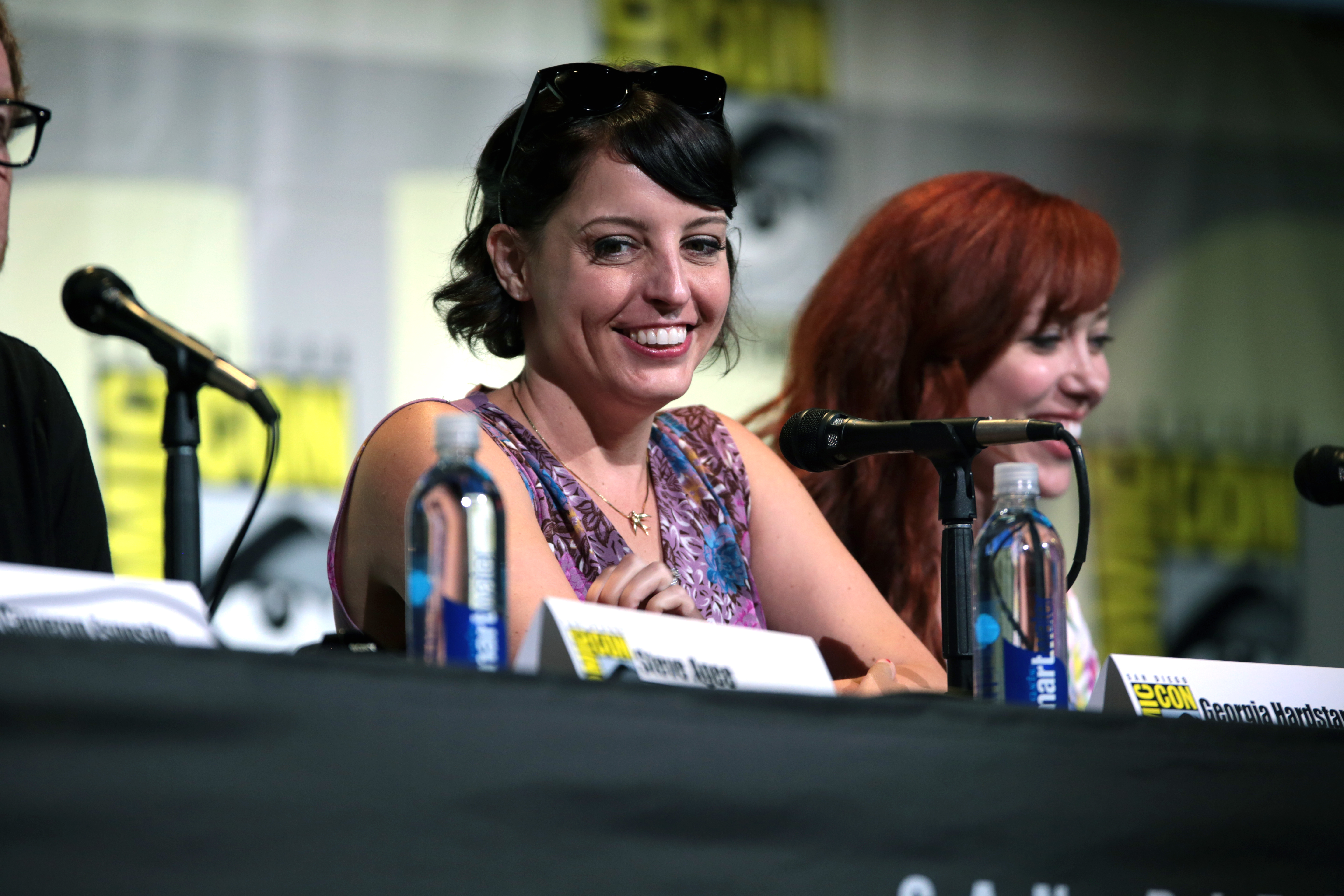 Georgia Hardstark speaking at the 2016 San Diego Comic Con International, for "Feral Audio Live", at the San Diego Convention Center in San Diego, California.